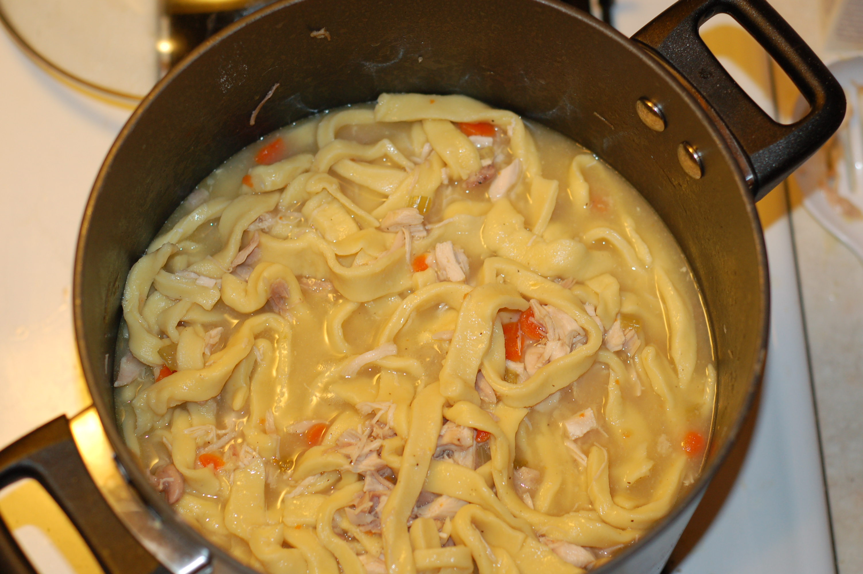 Homemade chicken noodle soup